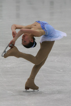 2008 World Junior Figure Skating Championships - Caroline Zhang